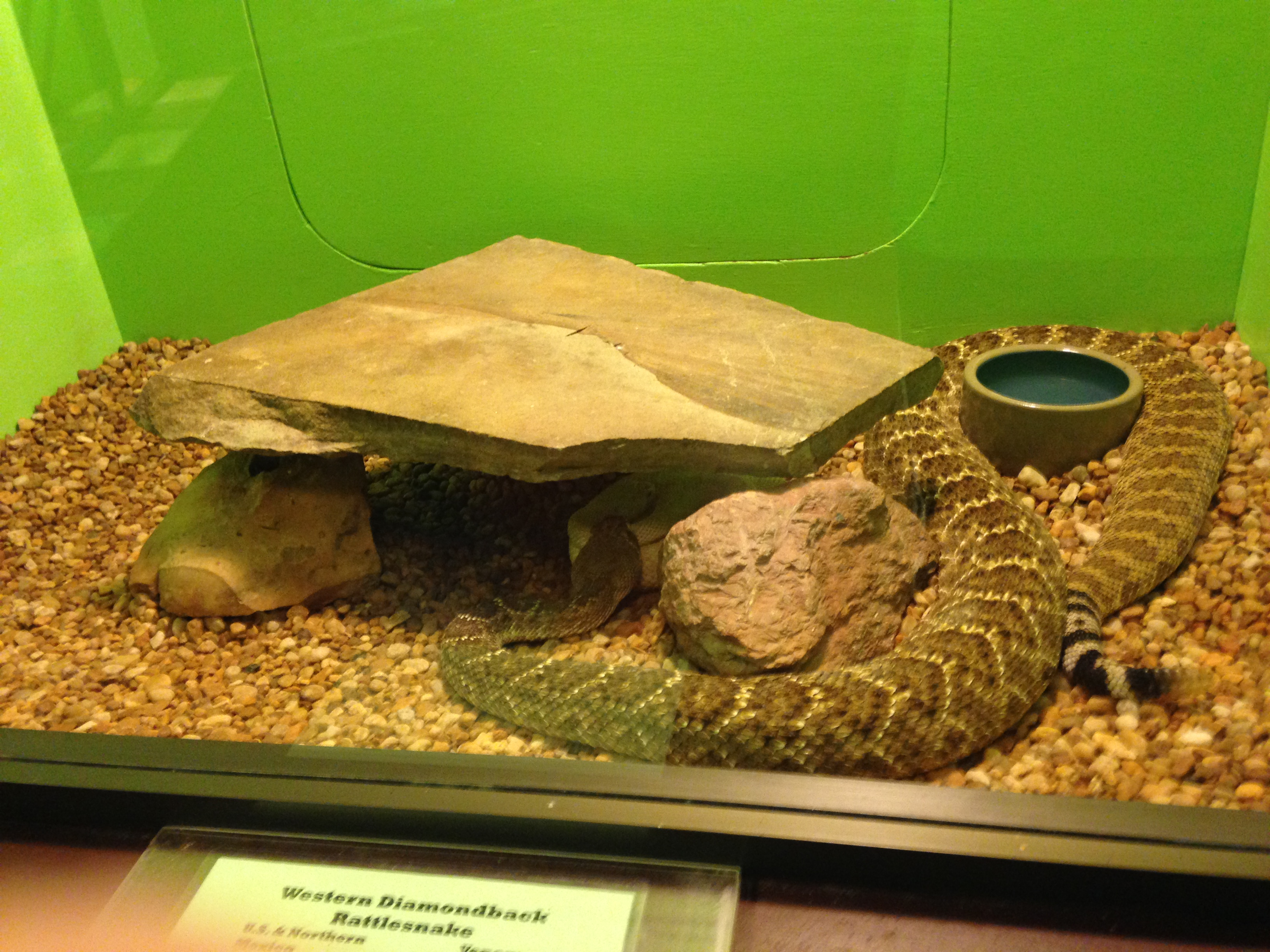 Western Diamondback rattlesnake crotalus atrox. I photographed this rattler at the reptile world serpentarium st cloud florida. I photographed it 2 days before christmas.